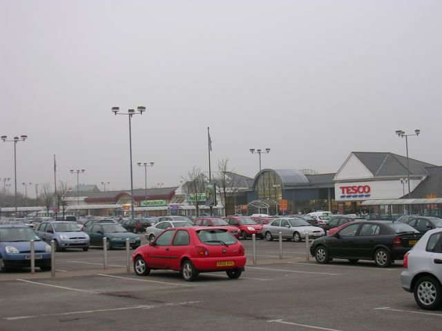 Handforth Dean Shopping Centre